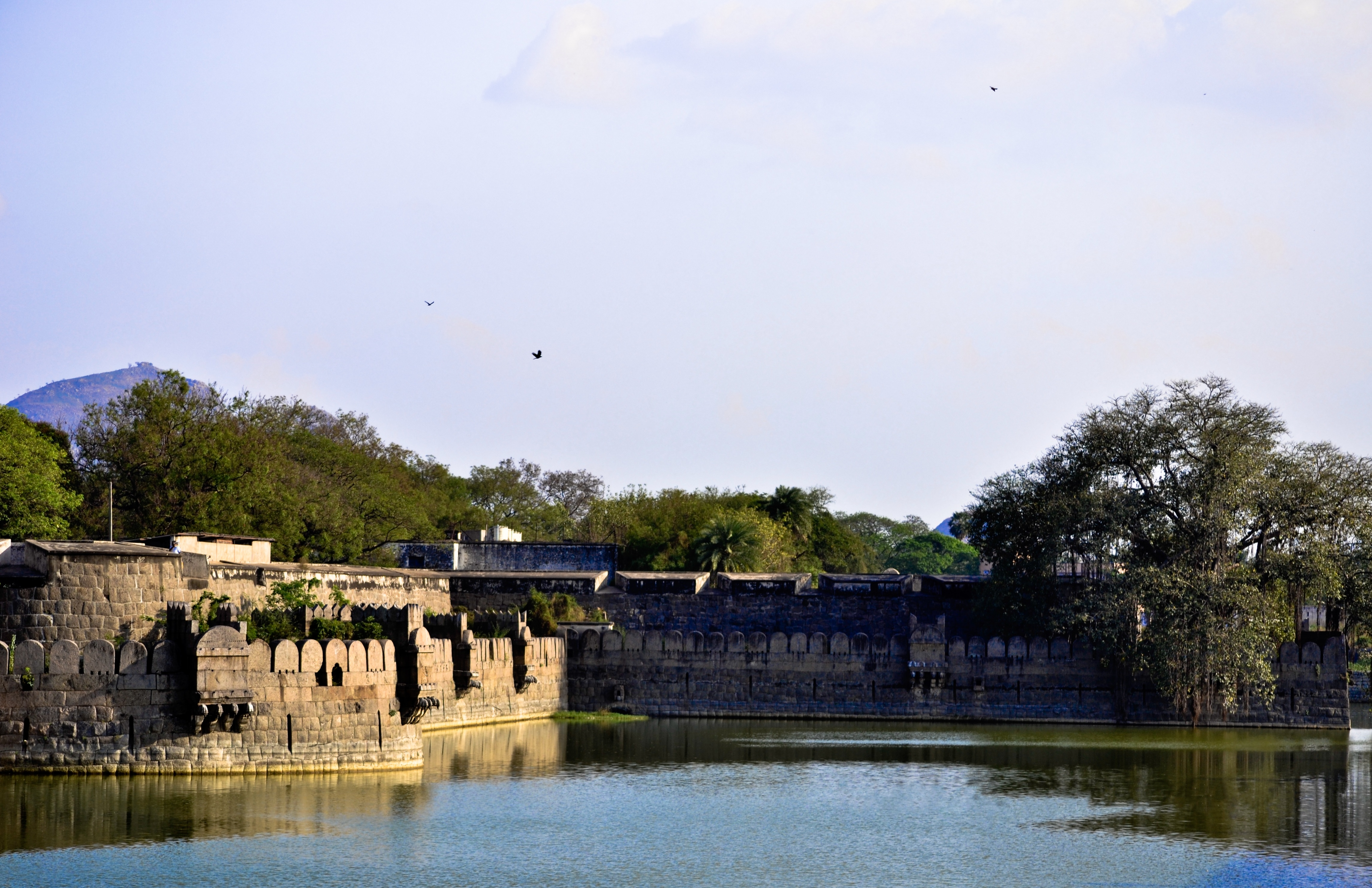 Vellore Fort